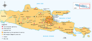 majapahit